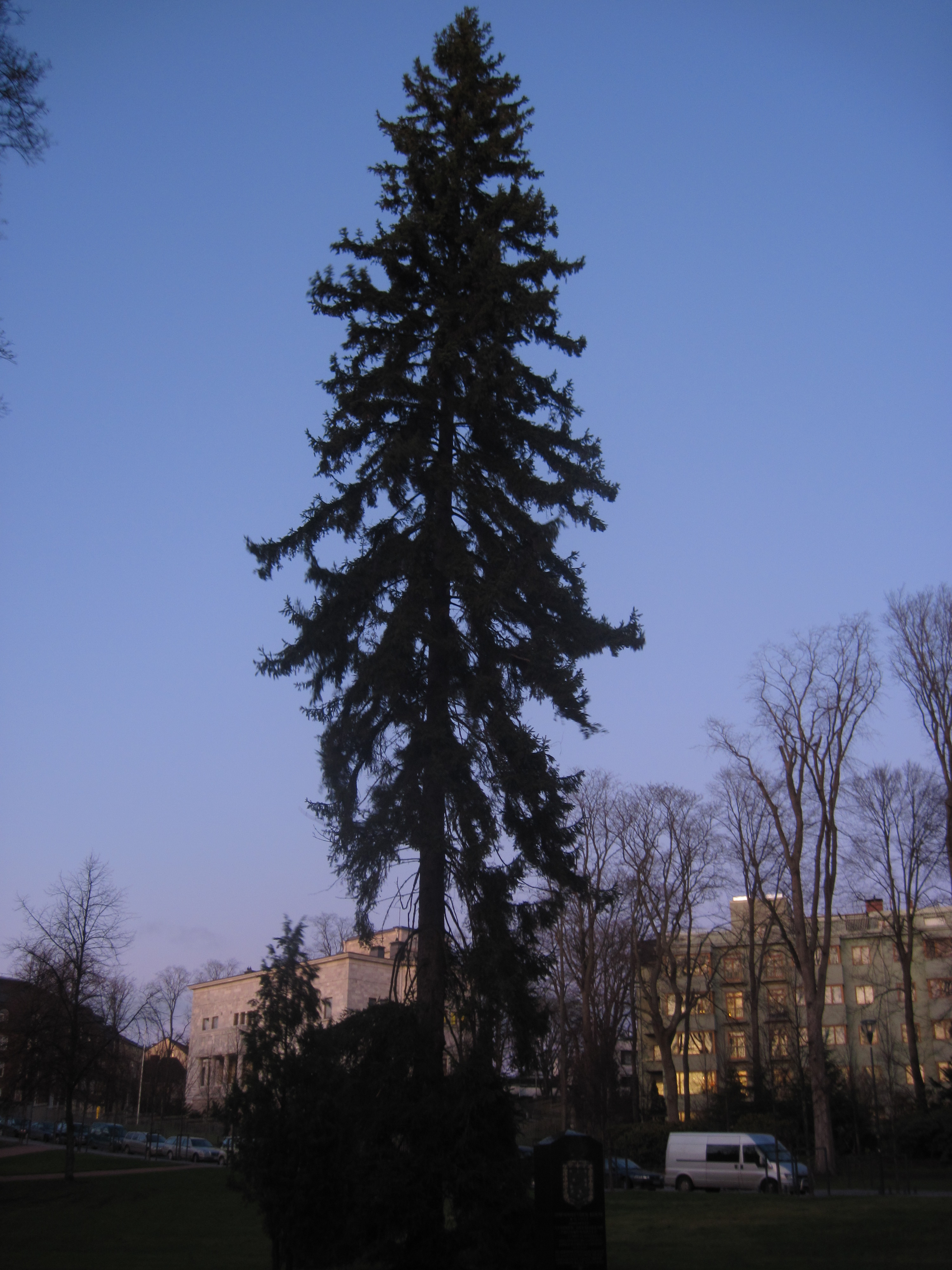 Independence Spruce (Itsenäisyyden kuusi) at Kaivopuisto, Helsinki, Finland